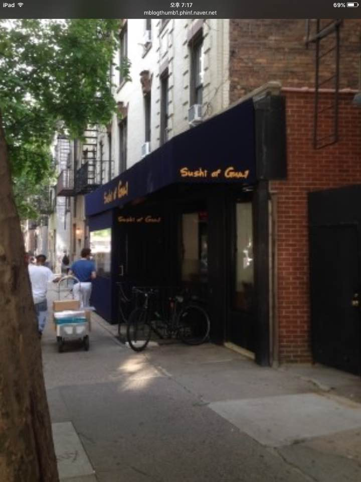 Sushi of Gari is one of the famous sushi restaurant in NYC. Owner Chief is "Mastoshi Gari Sugio". He decided to open his own restaurant in 1997, “Sushi of Gari,” on the Upper Eastside of Manhattan. His main focus continues to be his desire to serve his sushi with the original sauce and toppings he has created. These speical sauces only serve to enhance the sensitive taste and flavor of each morsel of fish.